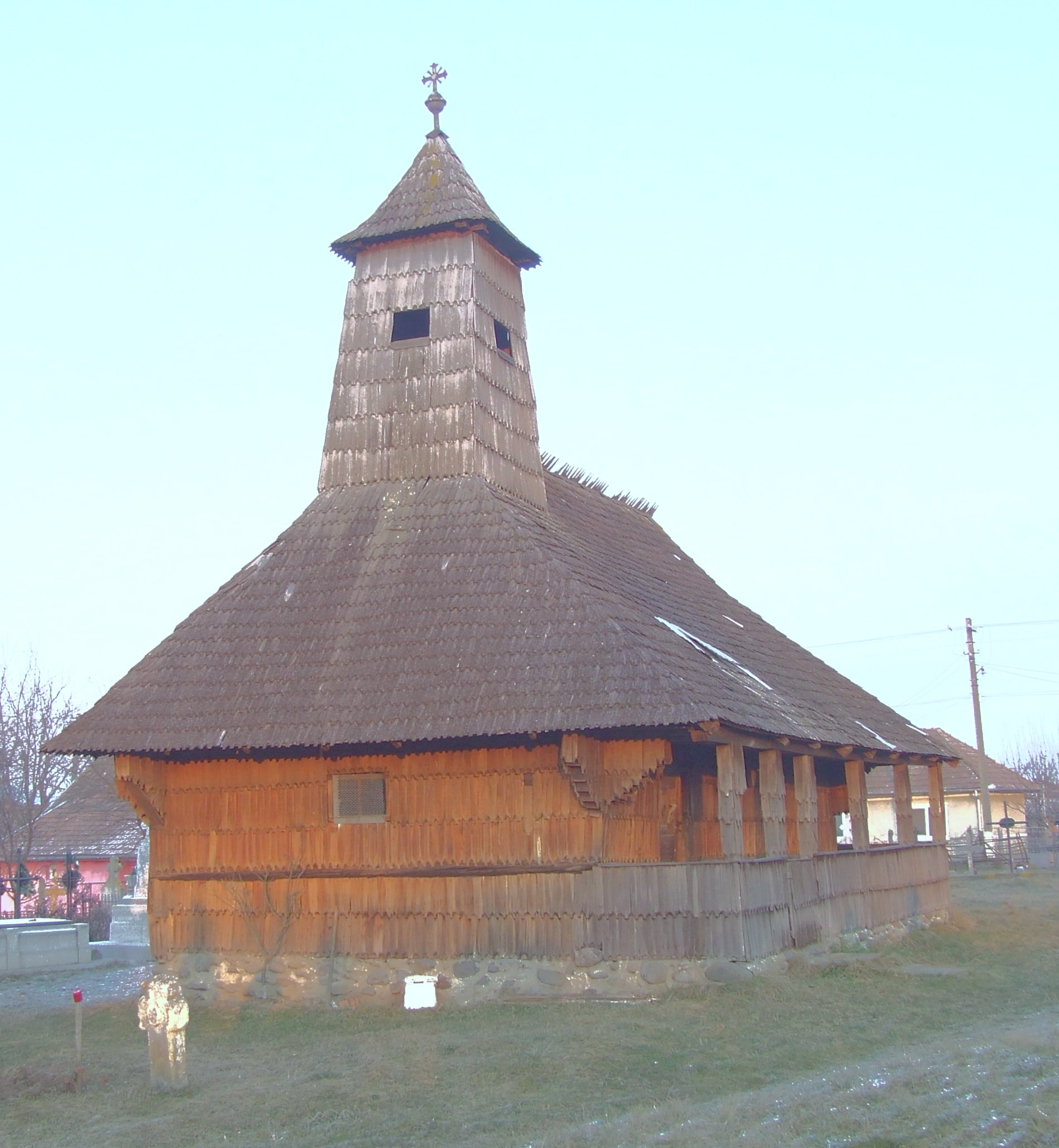 Wooden church in Cuci, Mureş county, Romania